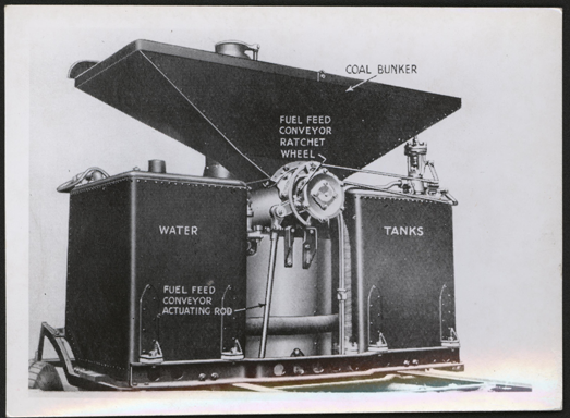 Sentinel Steam Wagon factory photograph of its boiler and coal feeding mechanism.